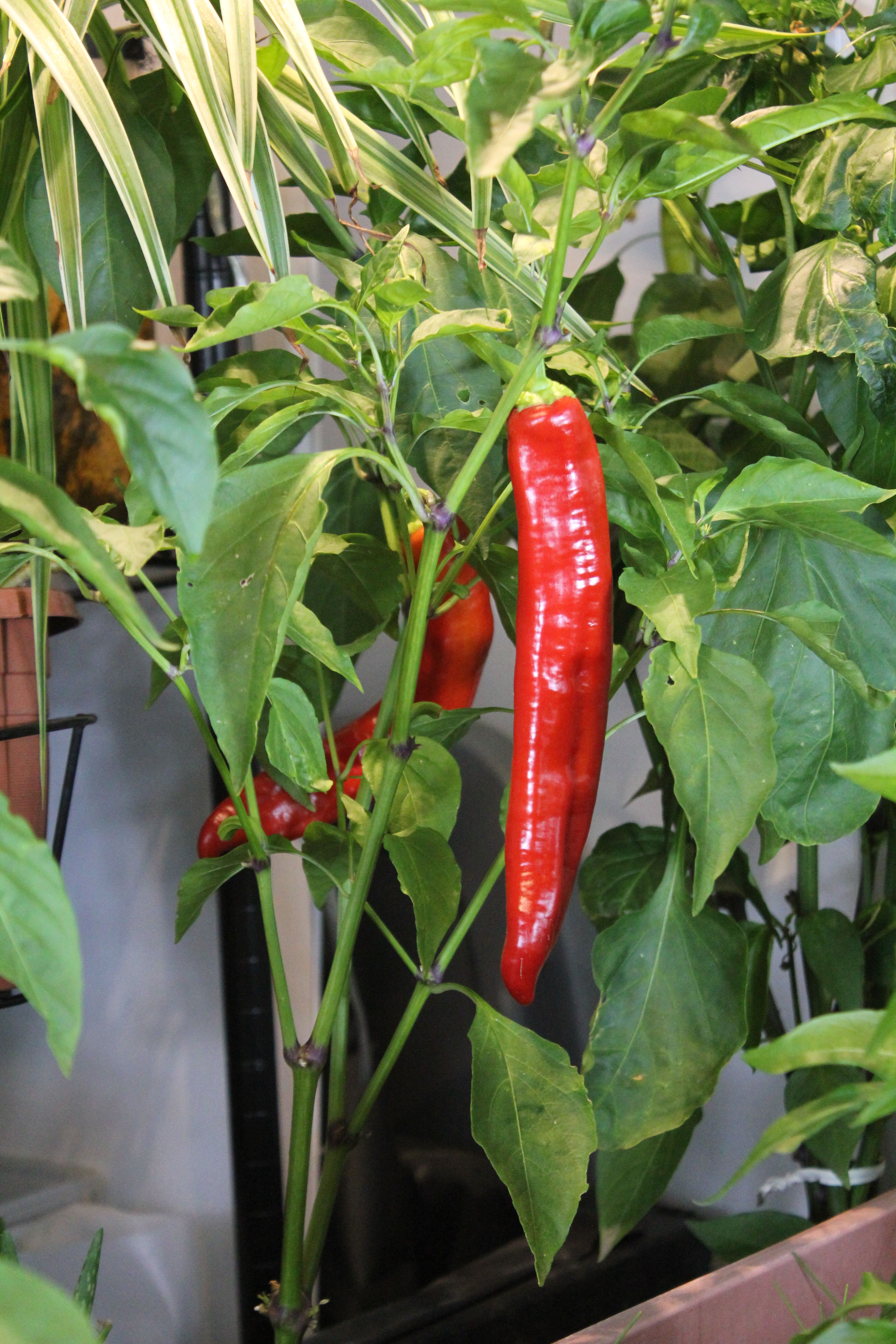 Hungarian wax peppers